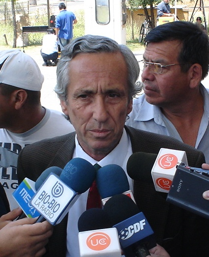 Norman Bull